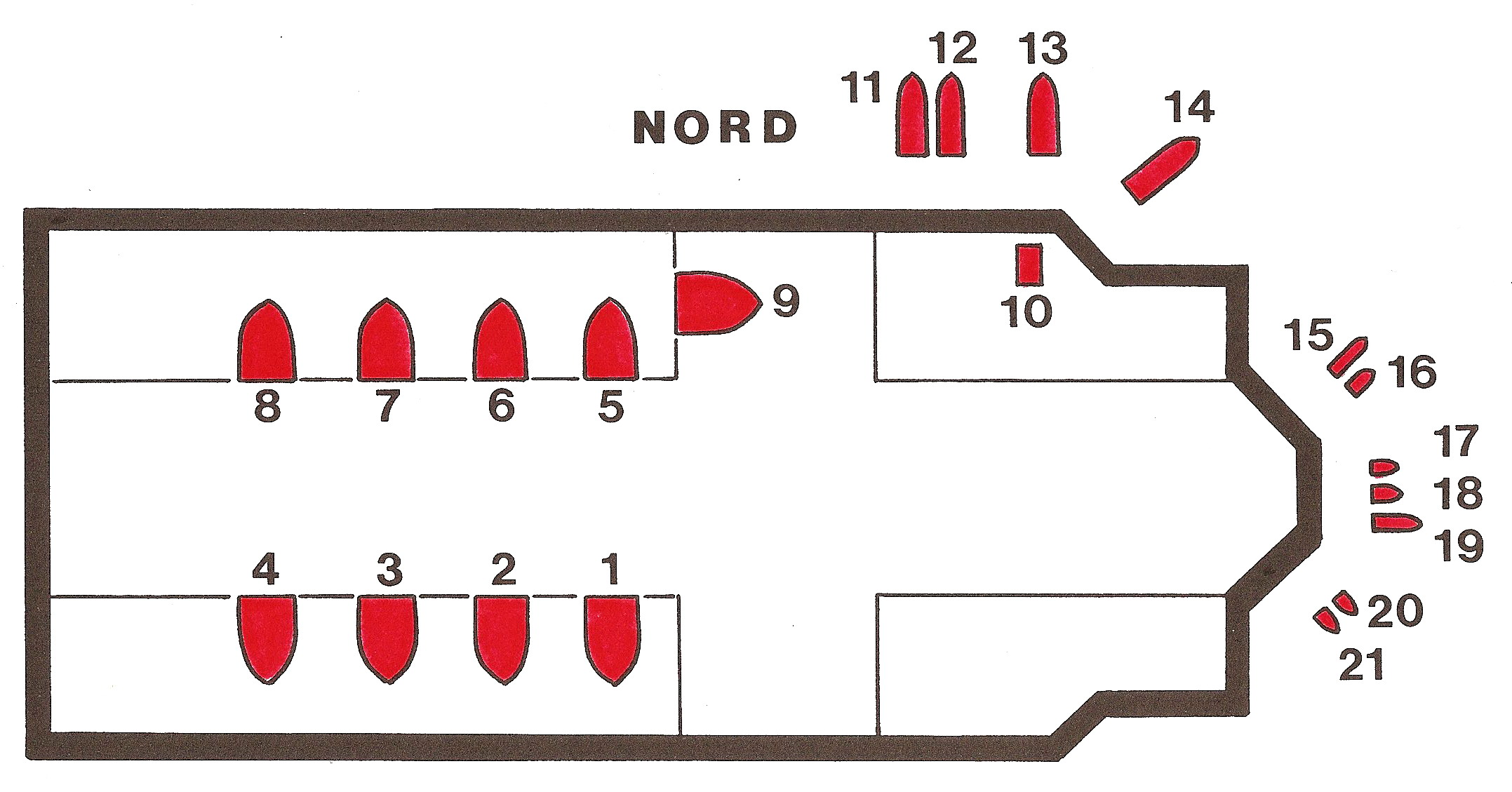 Ground plan of the stained glass windows by Josef Oberberger in the cathedral St. Peter in Regensburg, Germany